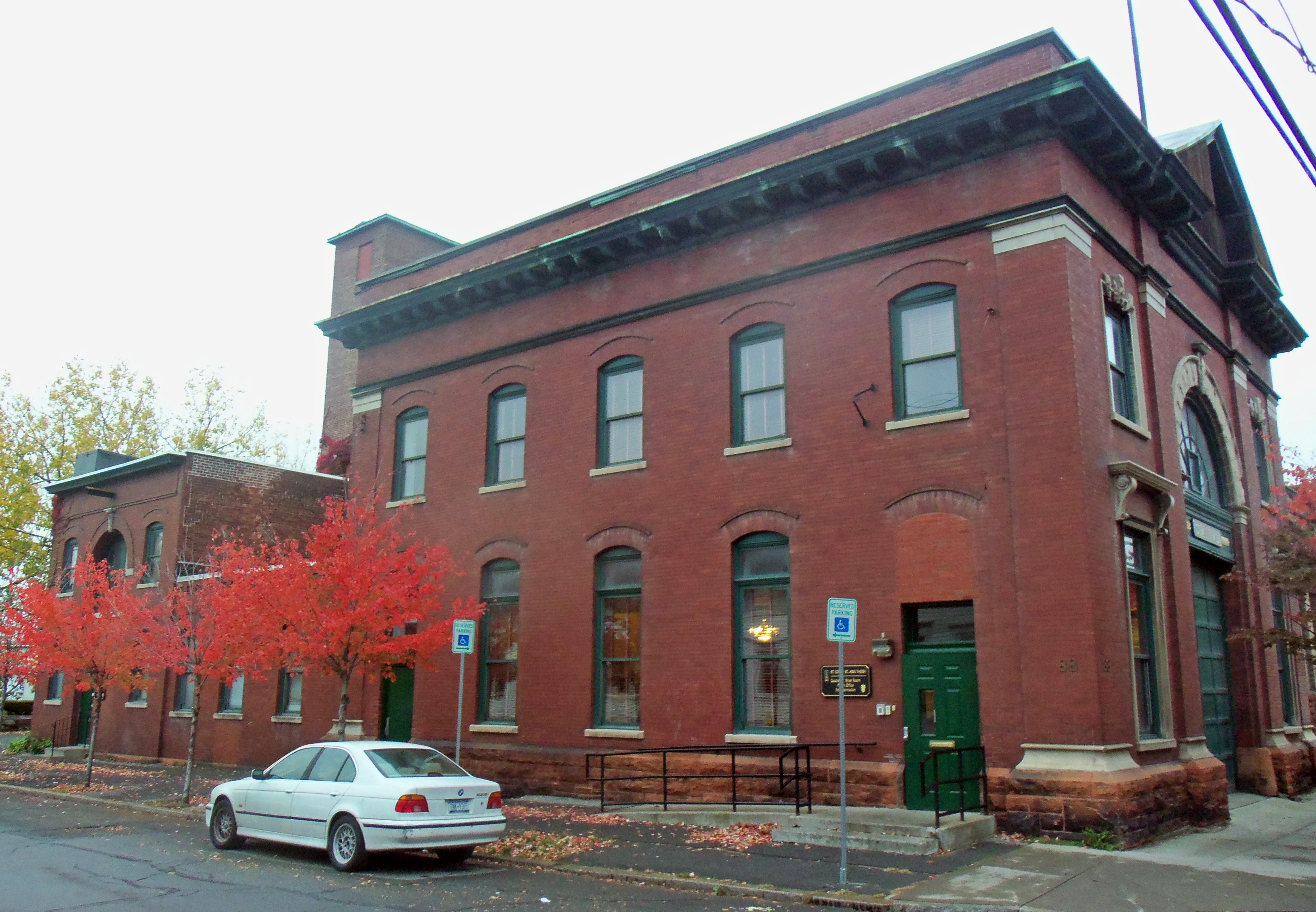 Former Engine Co. No. 5 firehouse, a contributing property to the South End–Groesbeckville Historic District, Albany, NY, USA